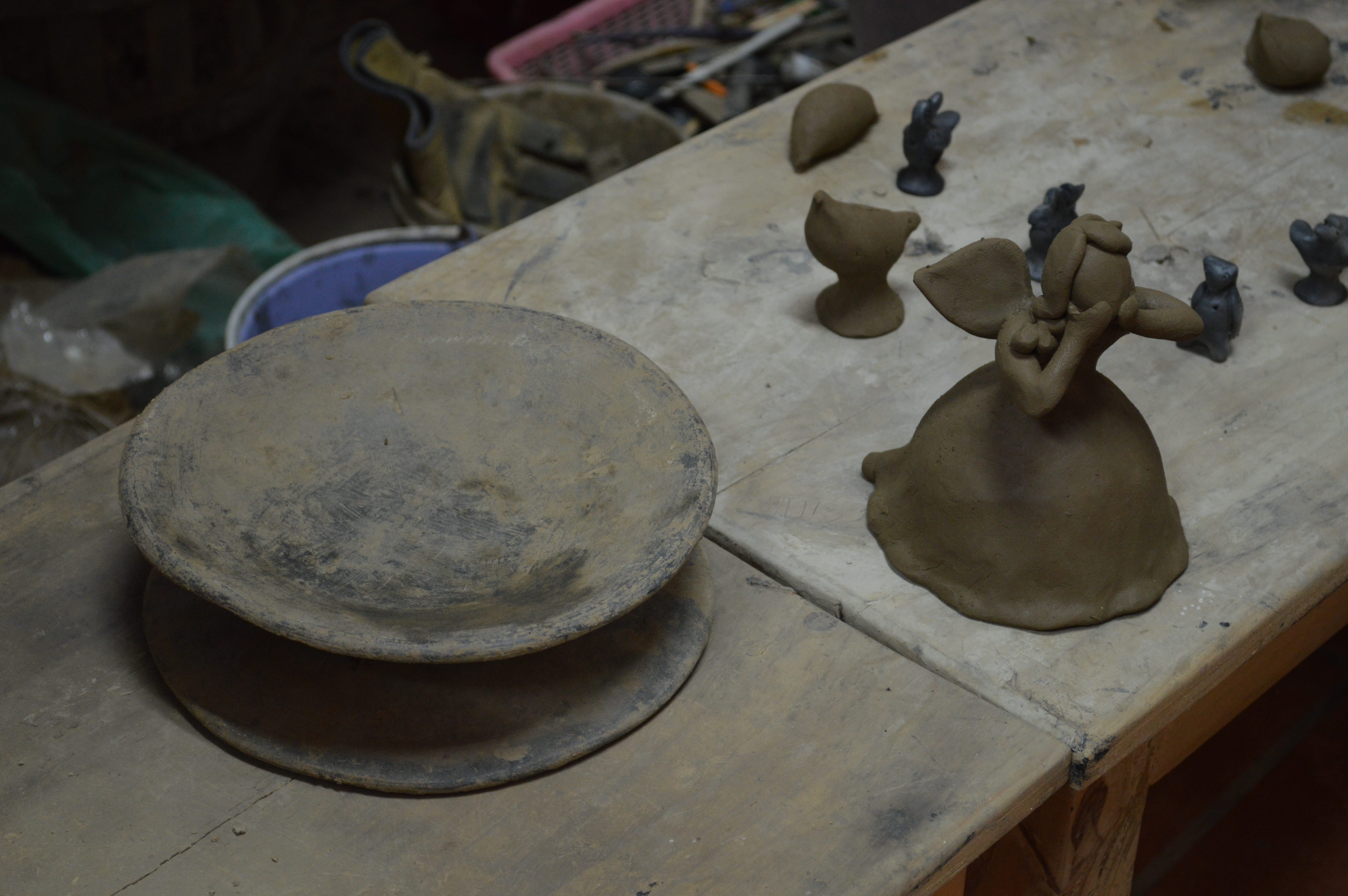 Bowl and inverted bowl used to make pottery in the Zapotec region of Oaxaca and clay, at the Carlomagno Pedro Martinez workshop in San Bartolo Coyotepec, Oaxaca